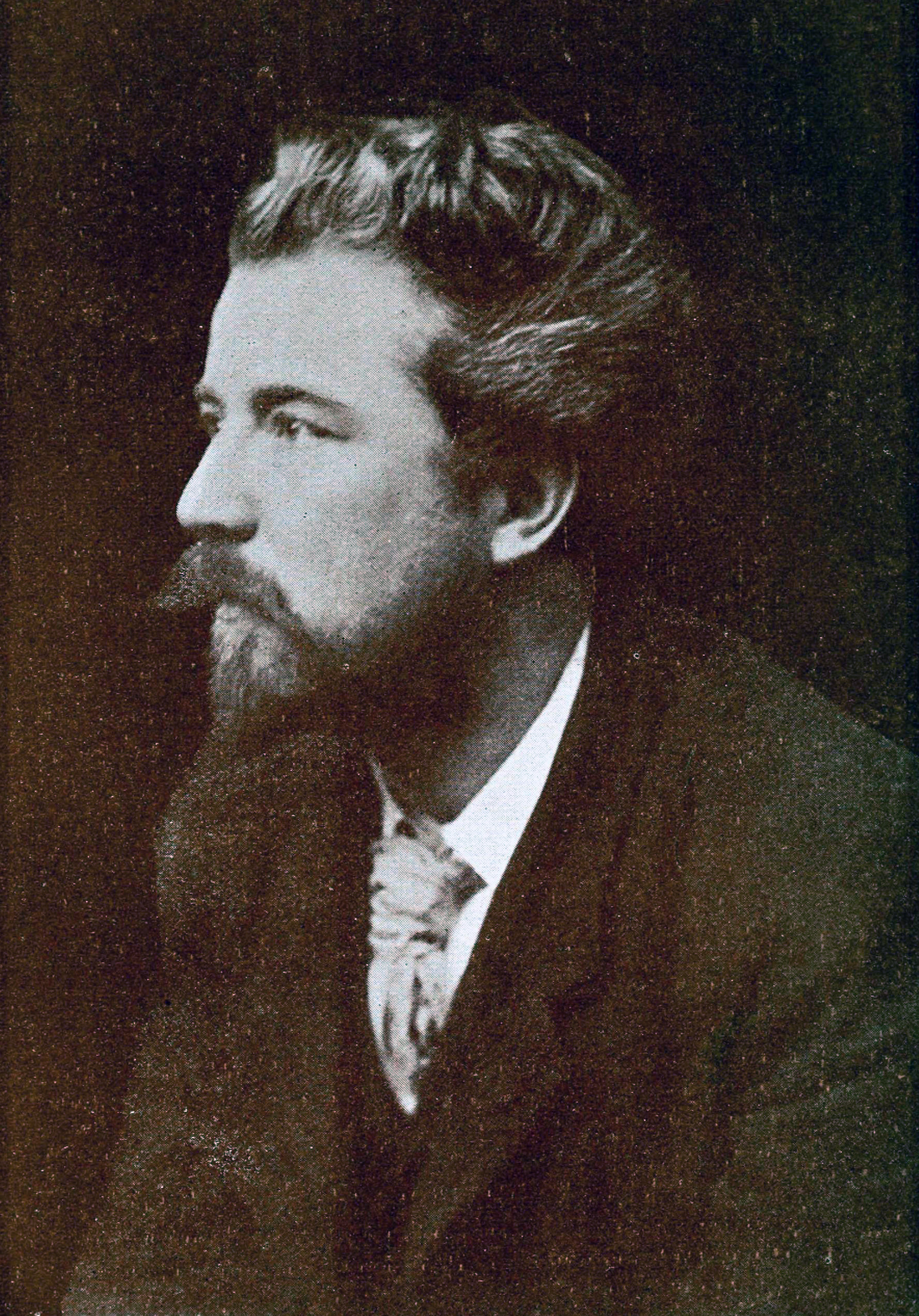 "Mr William Sharp: from a photograph: by Frederick Hollyer: The Chap-book: September 15, 1894"